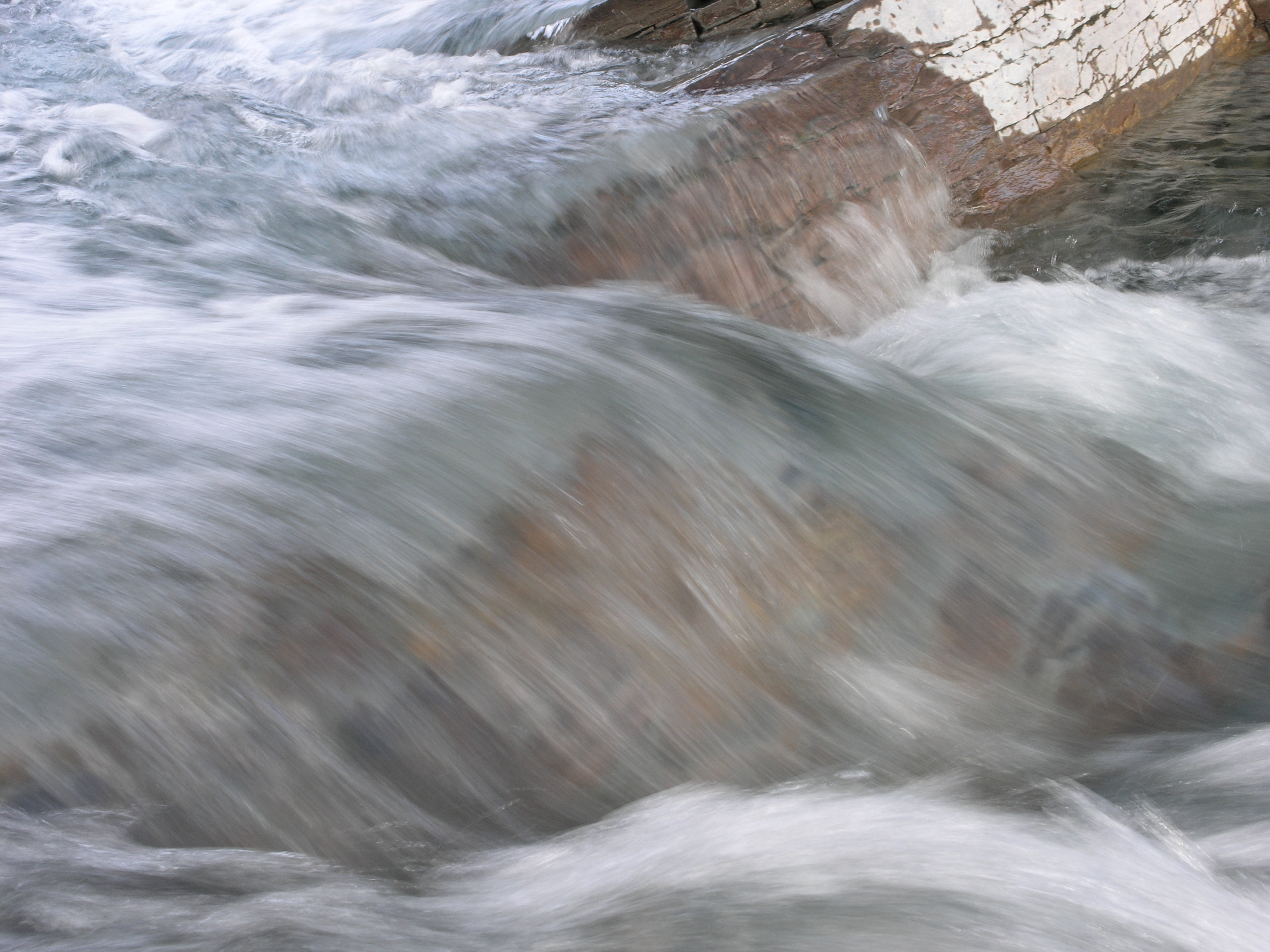 Wild water